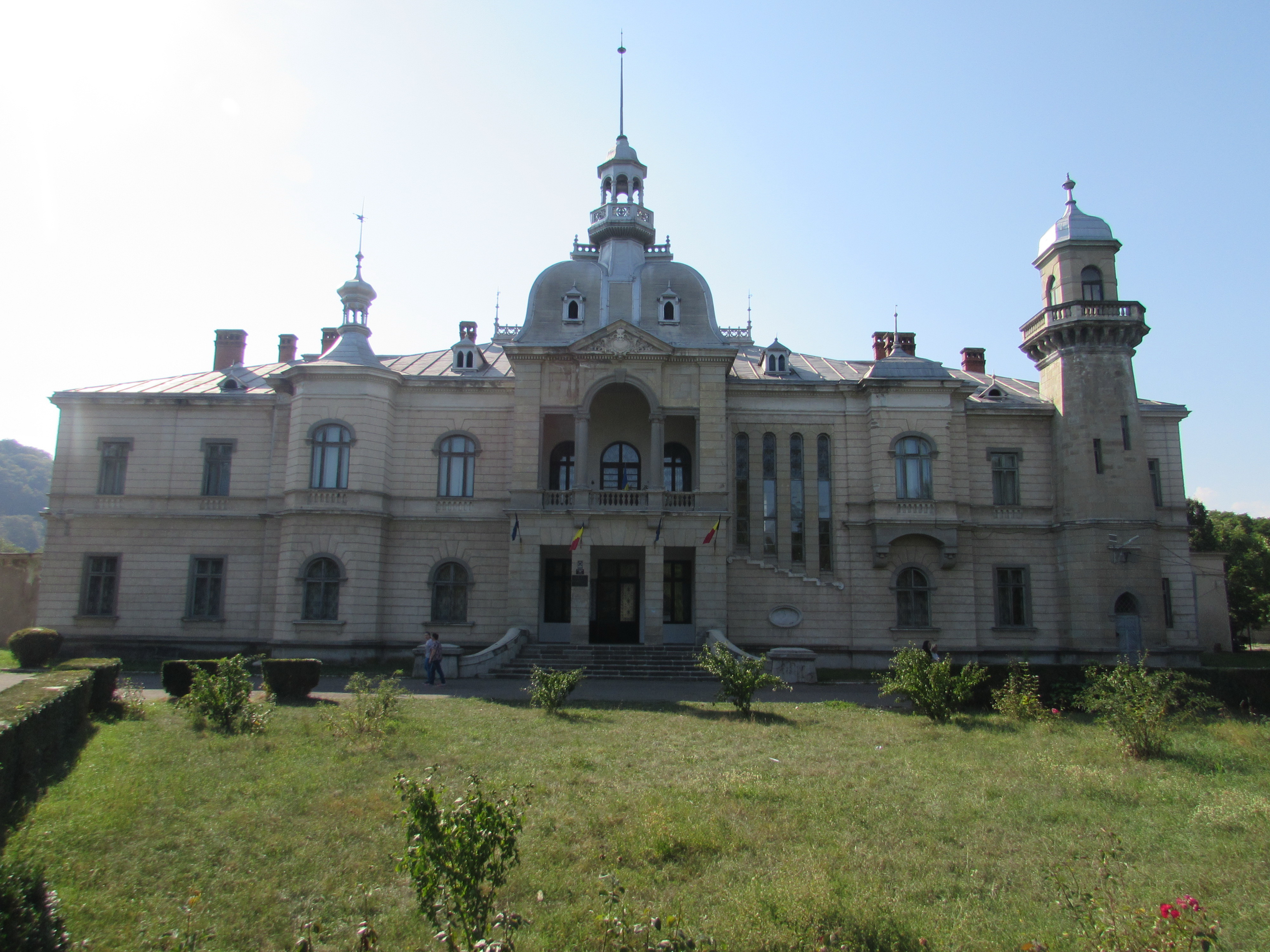 Ghica Palace, Comănești, Romania, built in 1880, architect Paul Louis Albert Galeron (1846-1930) 01